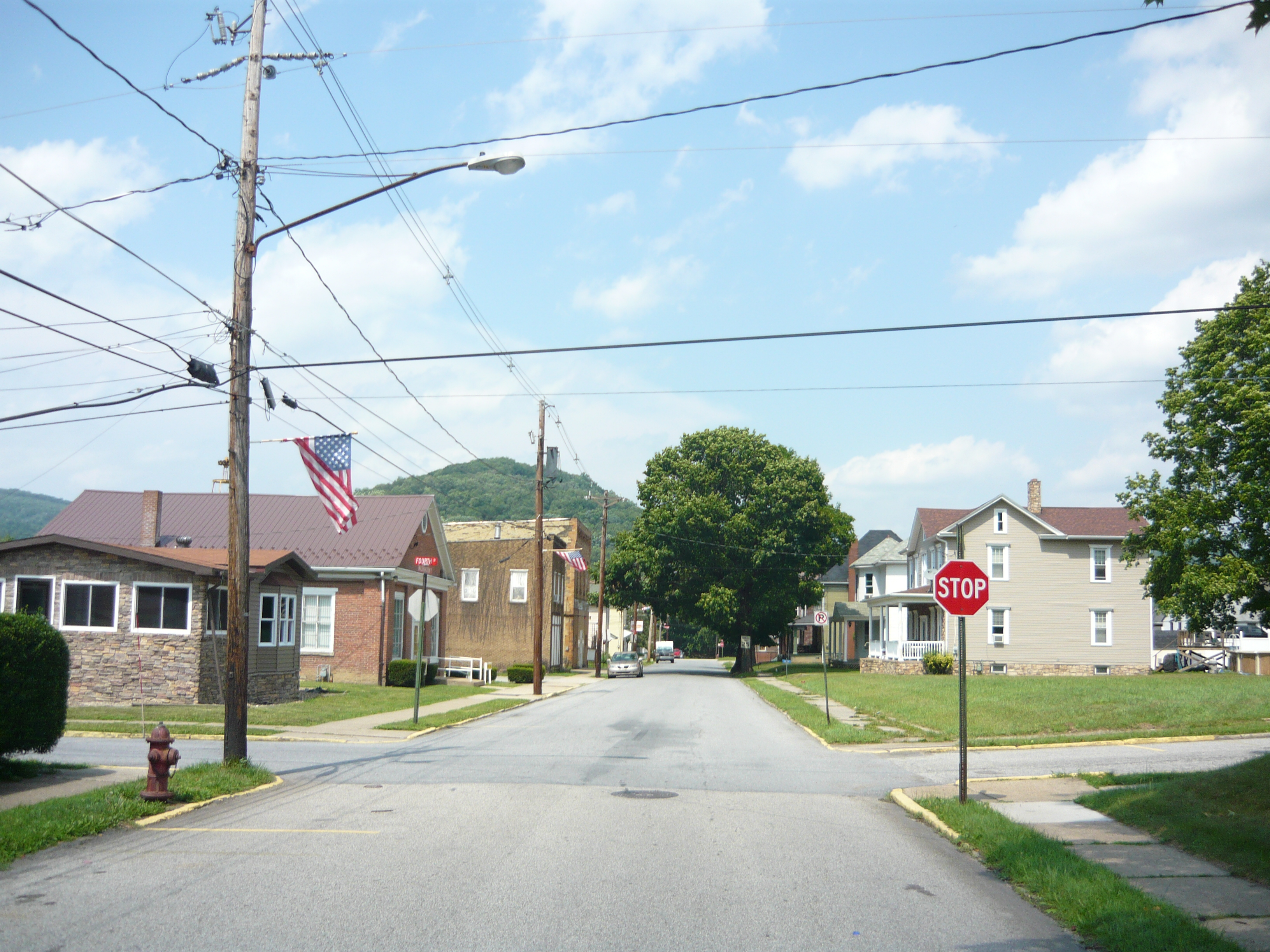 Washington Street (looking northward from 4th Street), Borough of Bolivar, Westmoreland County, Pennsylvania.